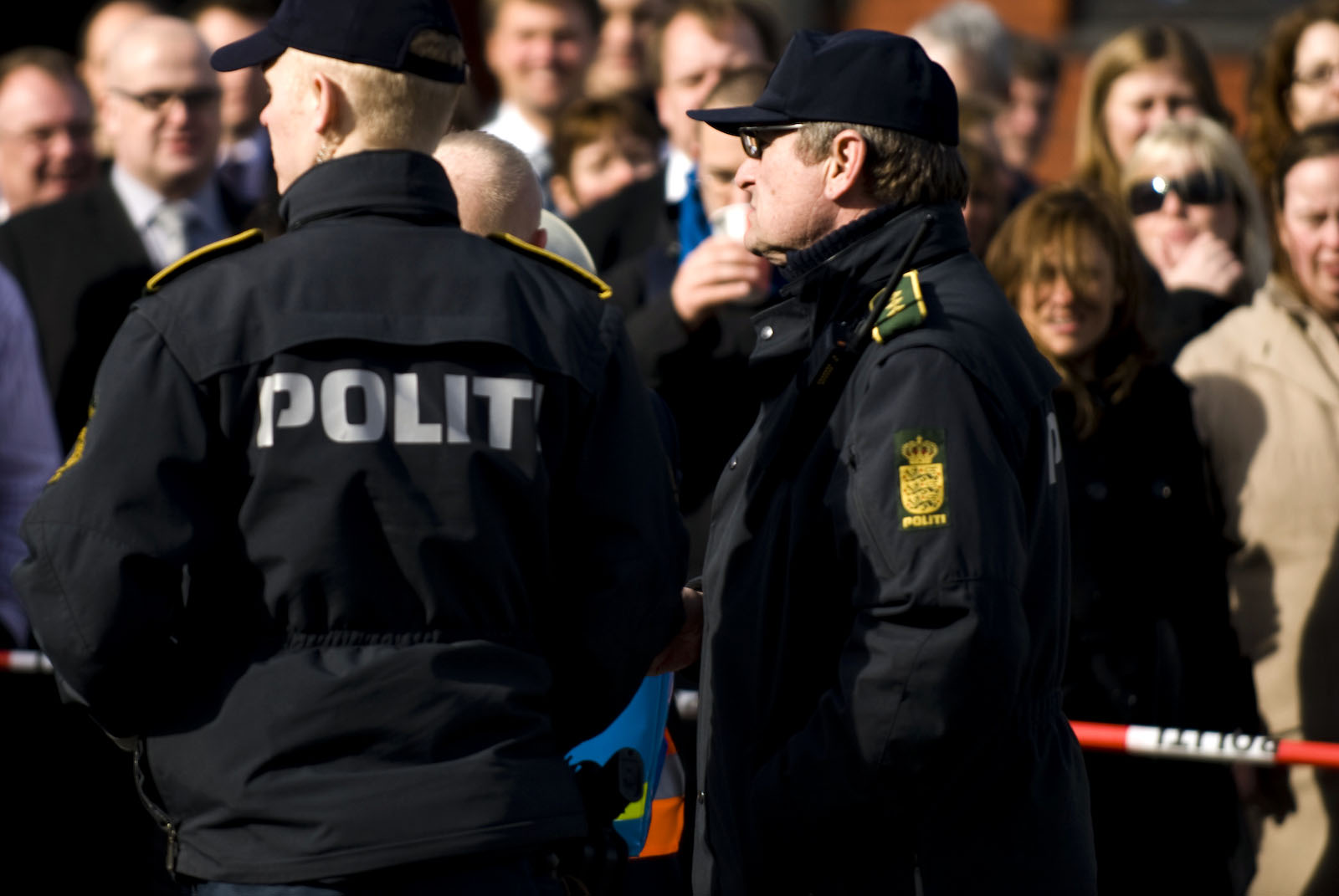 Danish police officers in their daily dress uniforms.